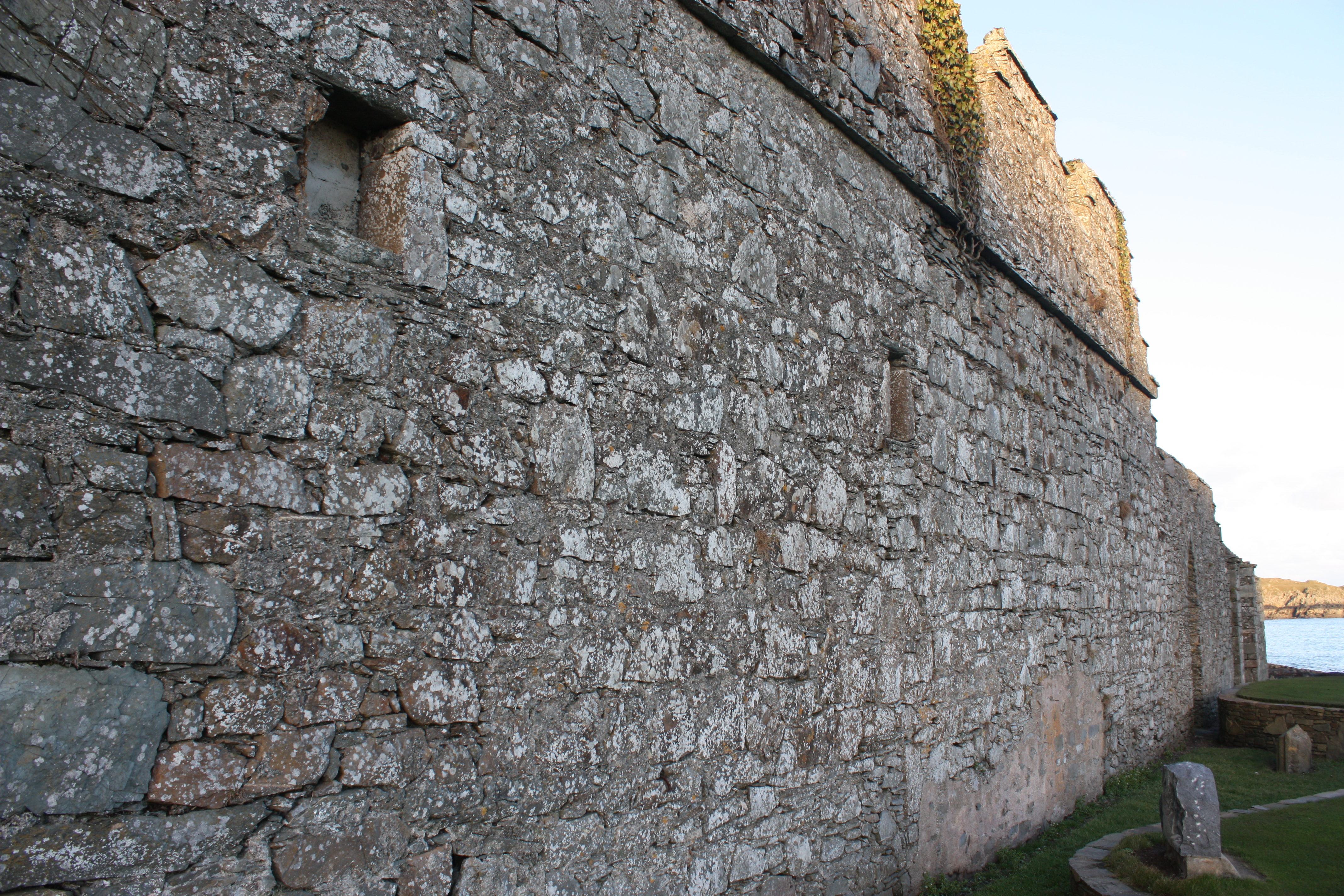 Ardglass Golf Club, Castle Place, Ardglass, County Down, Northern Ireland, November 2010